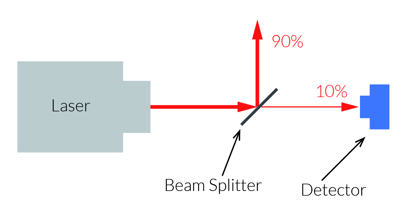 Application